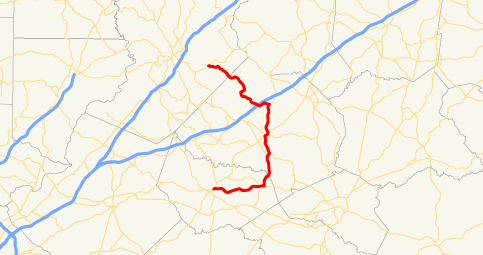 Map of Georgia State Route 82